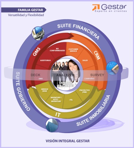 Una visión integral de las Soluciones de Negocios Gestar